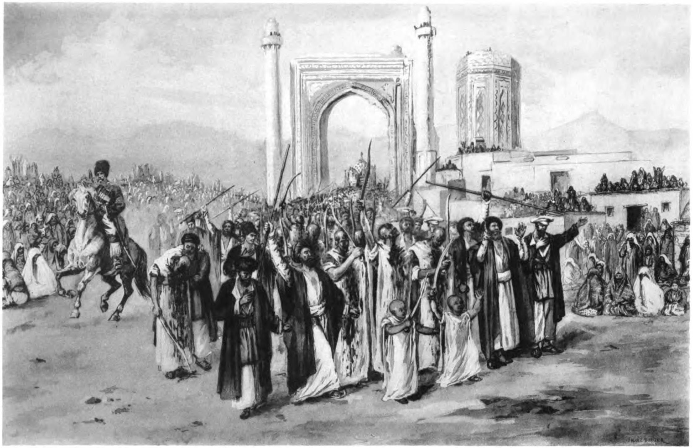 Extracted image from page 85 of the source book; picture caption: „Nakhitschewan.Beïram-Ali.“